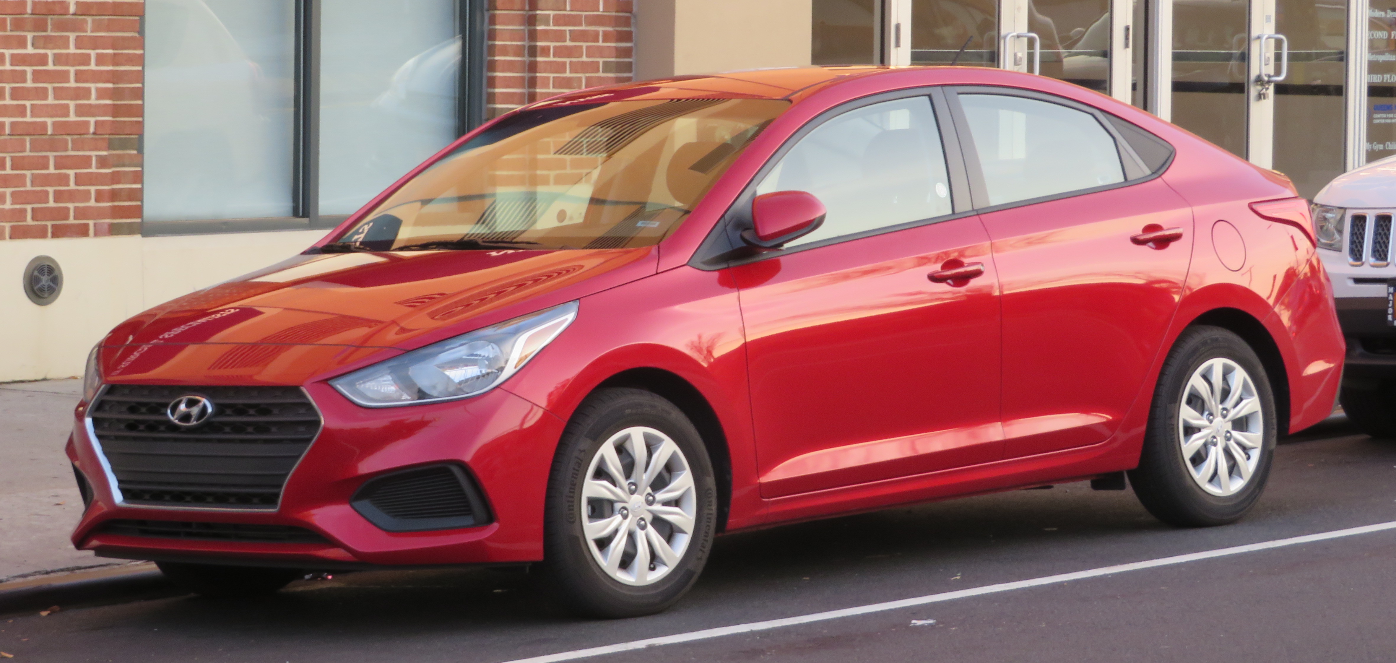 Photographed In Queens, New York